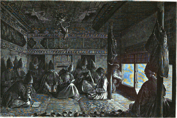 Azerbaijani school in Shusha